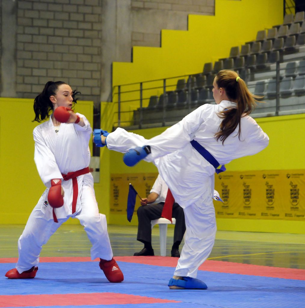 Karate Match at the CSIT World Sports Games in Tortosa, 2019-07-04